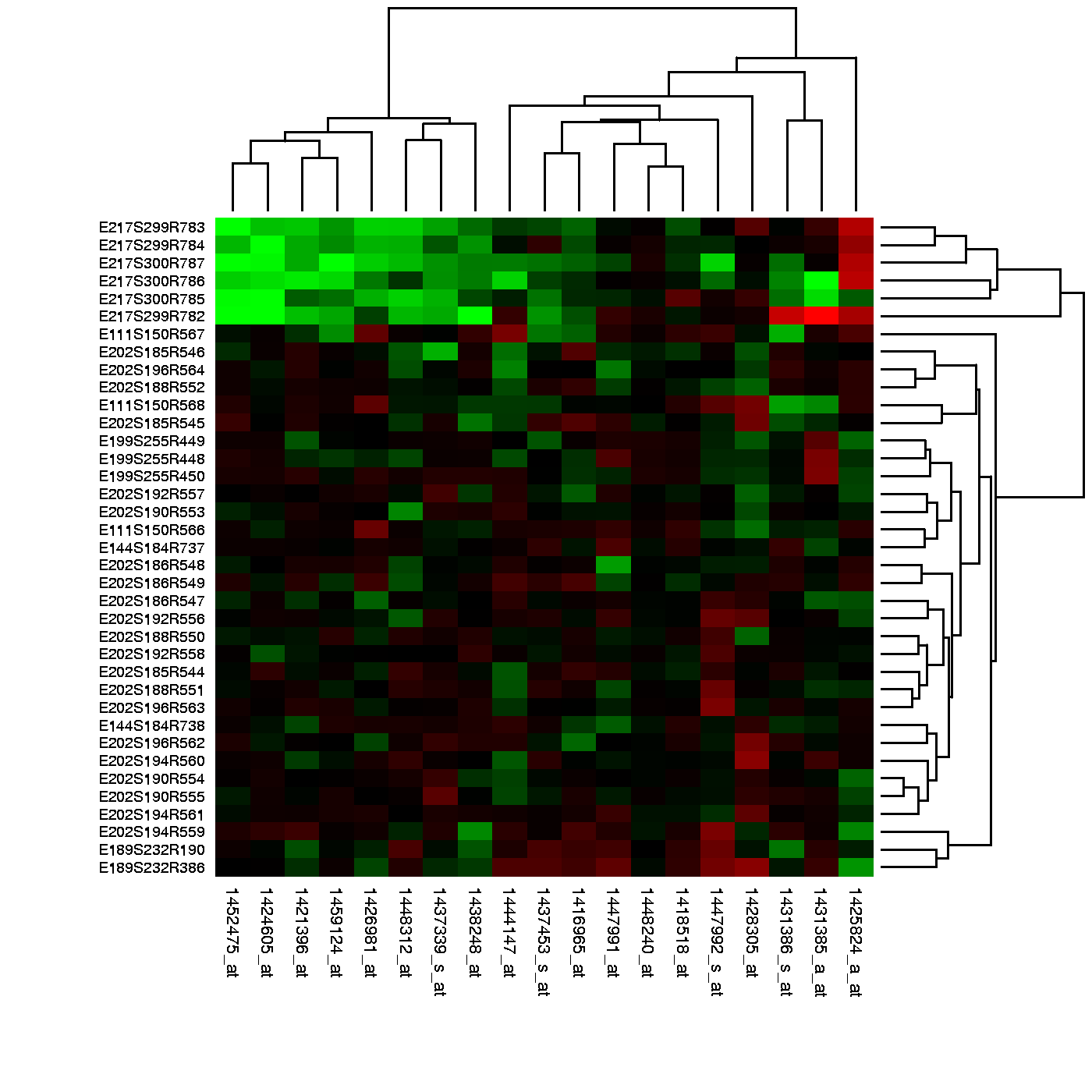 This image was generated in an academic institution using public data and public software.